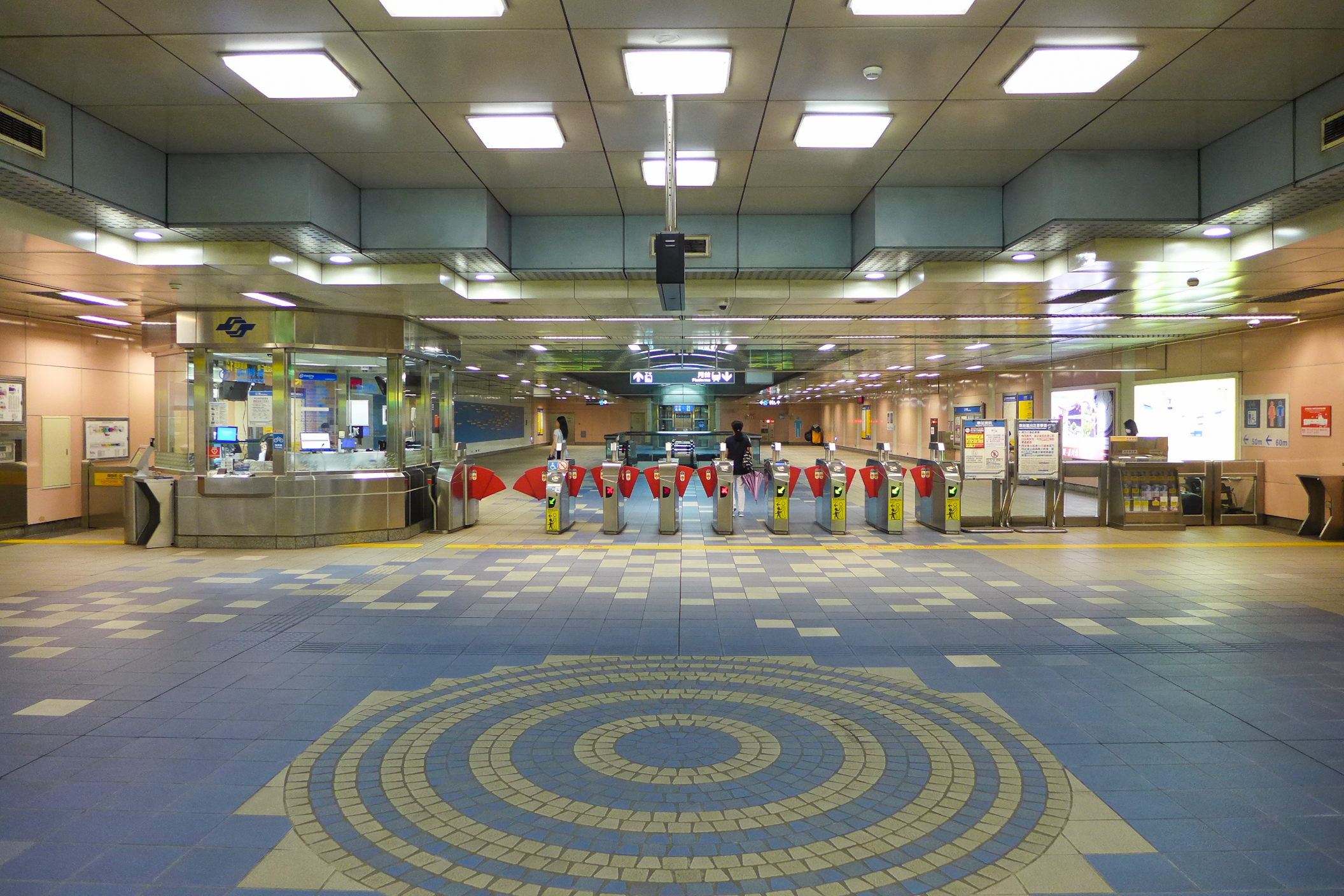 Far Eastern Hospital Station